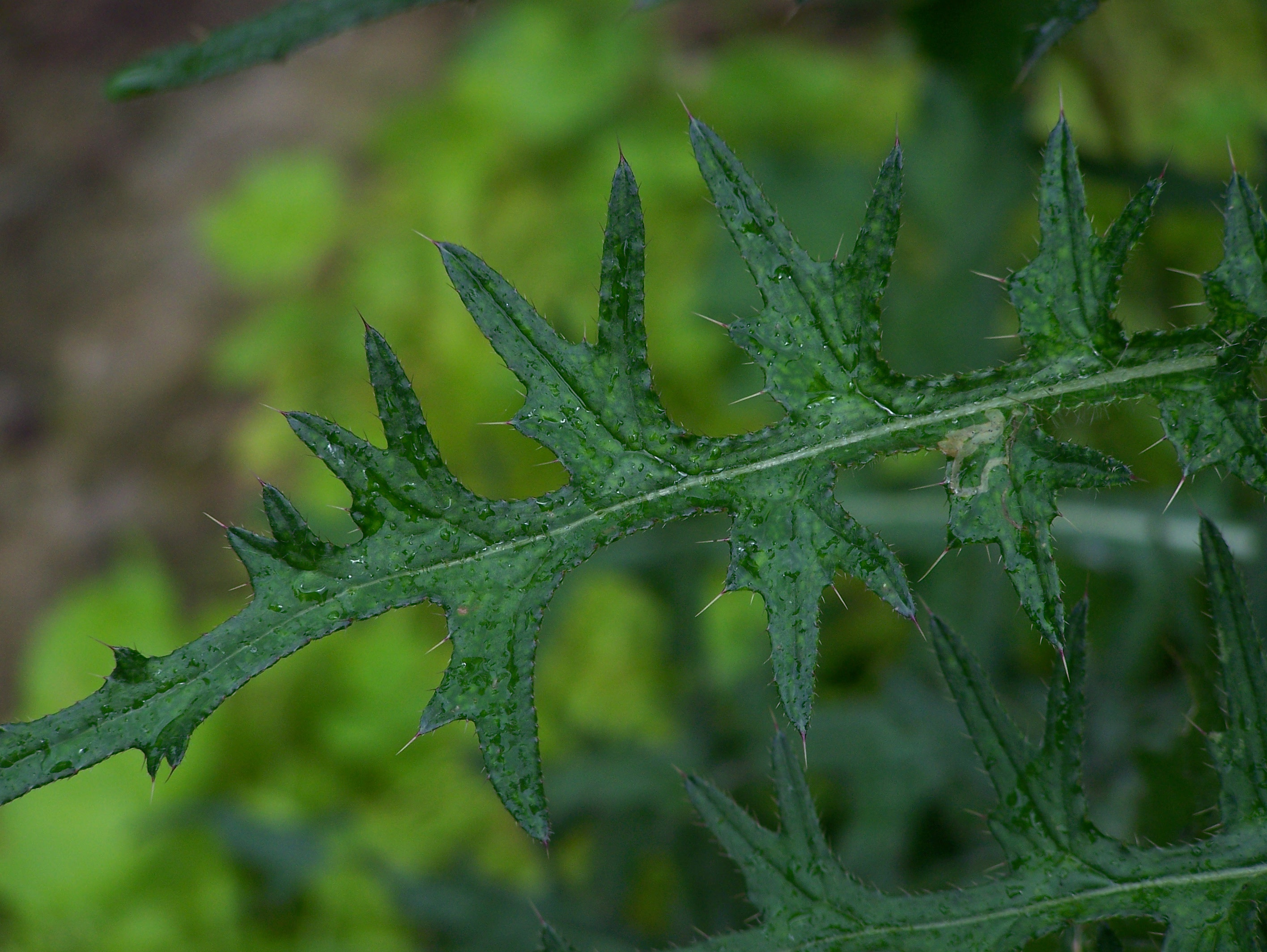 Cirsium palustre (Linnaeus) Scopoli Common names: European swamp or marsh thistle